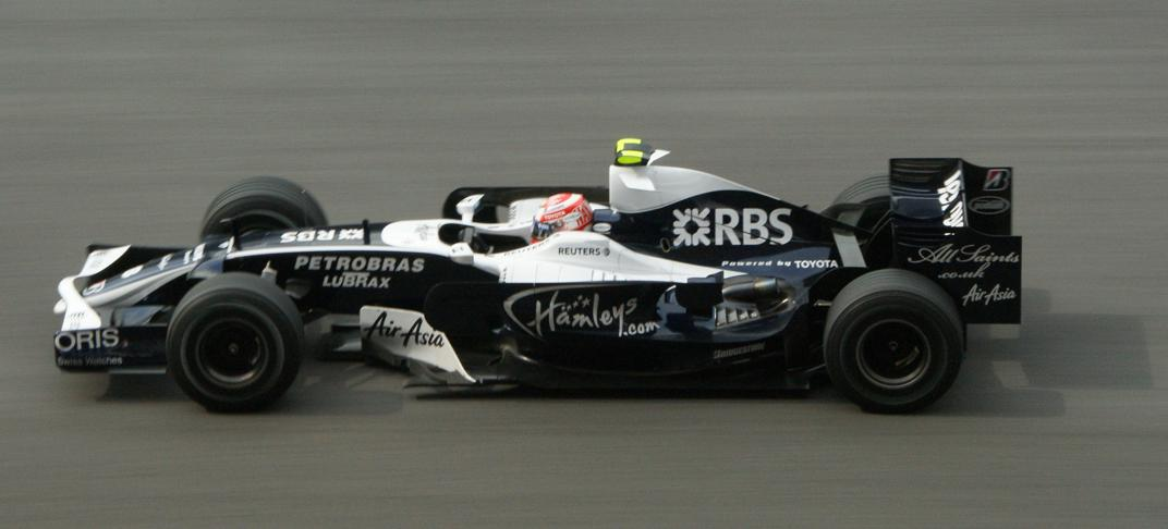 Kazuki Nakajima driving for WilliamsF1 at the 2008 Malaysian Grand Prix.